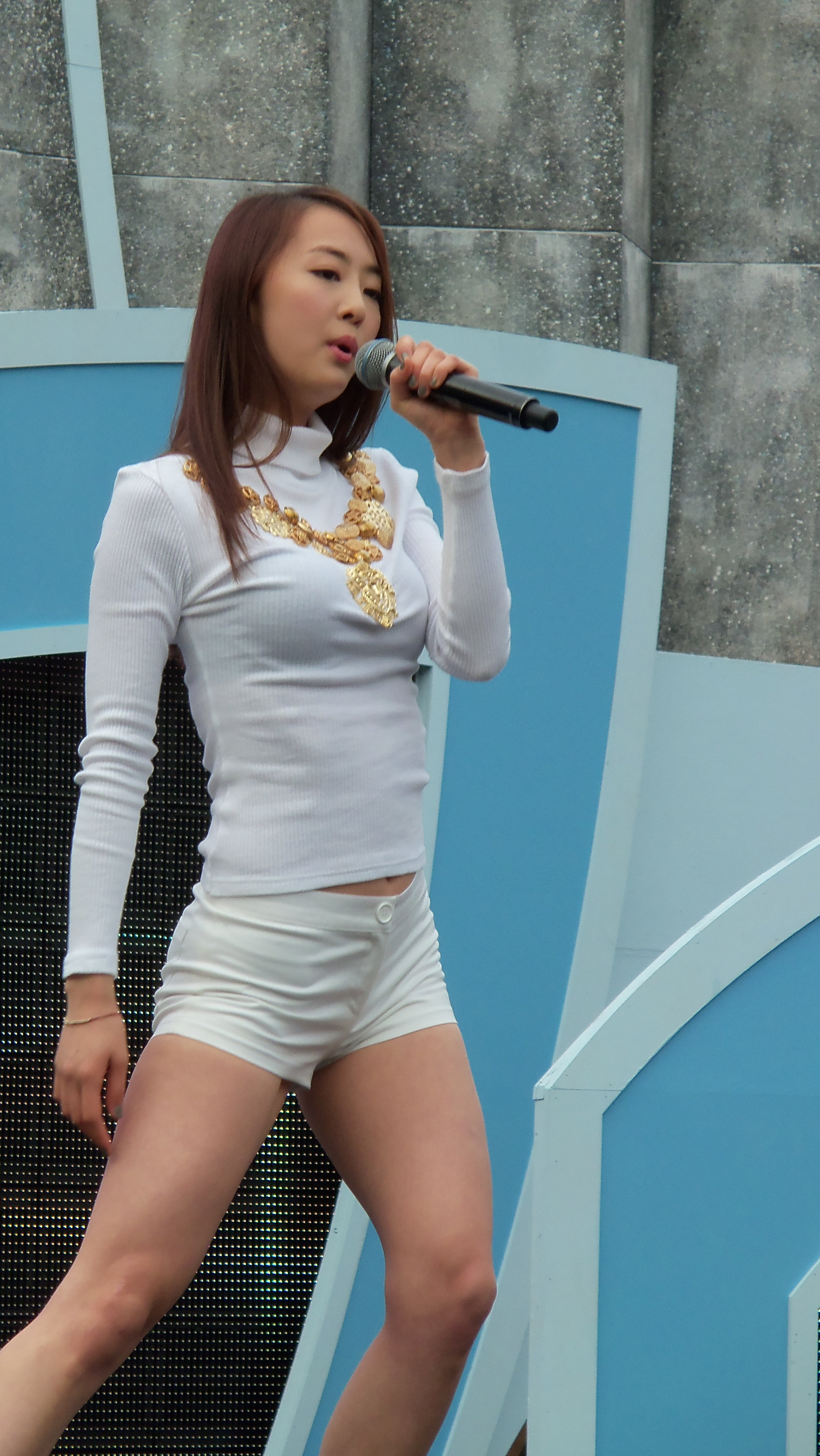 Sistar in Insadong at EVERY DAY GOOD DAY FESTIVAL